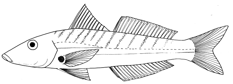 A hand drawn diagram of Sillago vittata, the western school whiting